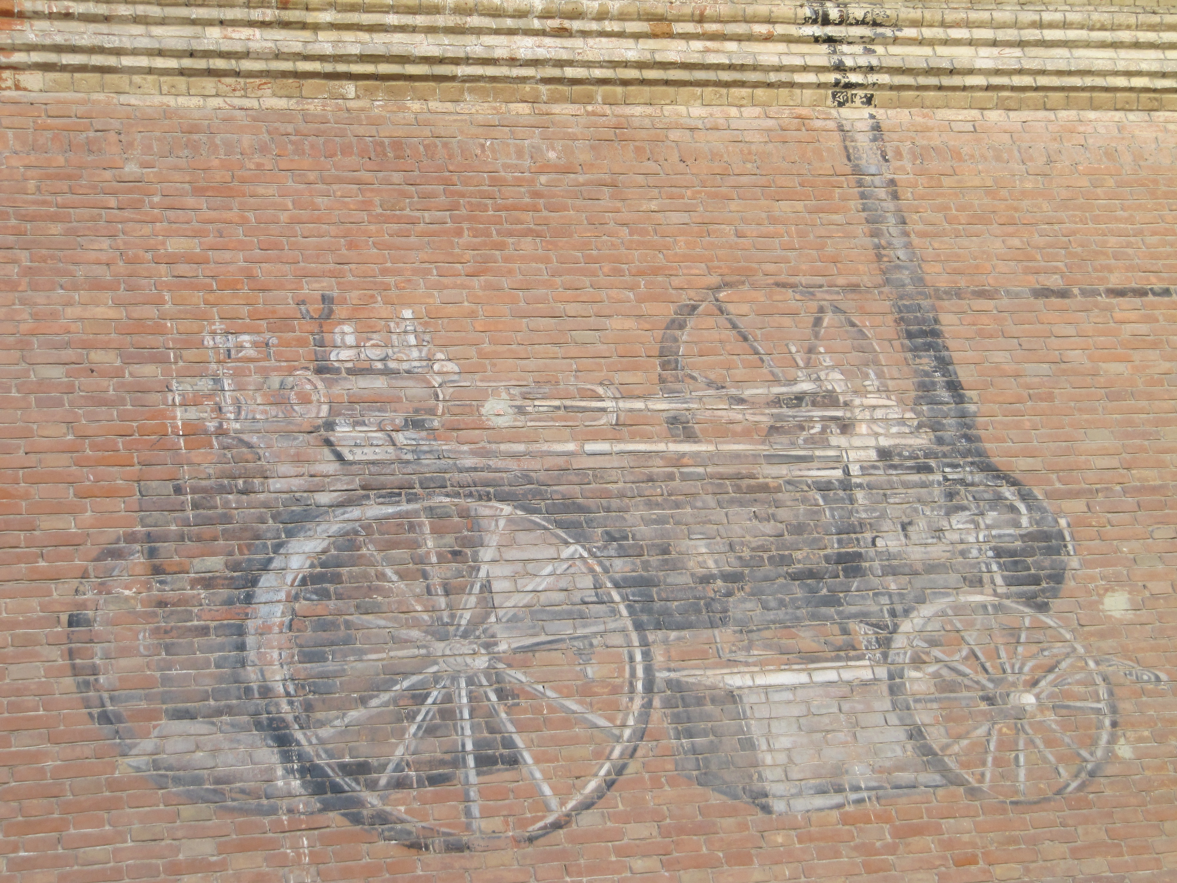 The drawing of the locomobile is drawn in 1900 on the wall of the building of the trading house of agricultural machines. That 's where the locomobiles were sold. Drawing customer and owner of the trading house Robert Karlovich Ert died before 1914 and the firm closed in 1915 (in the first world war). The building and drawing exist until this day. Copyrights after more than 100 years expired anyway. Sovetskaya Street 10, Saratov, Russia.